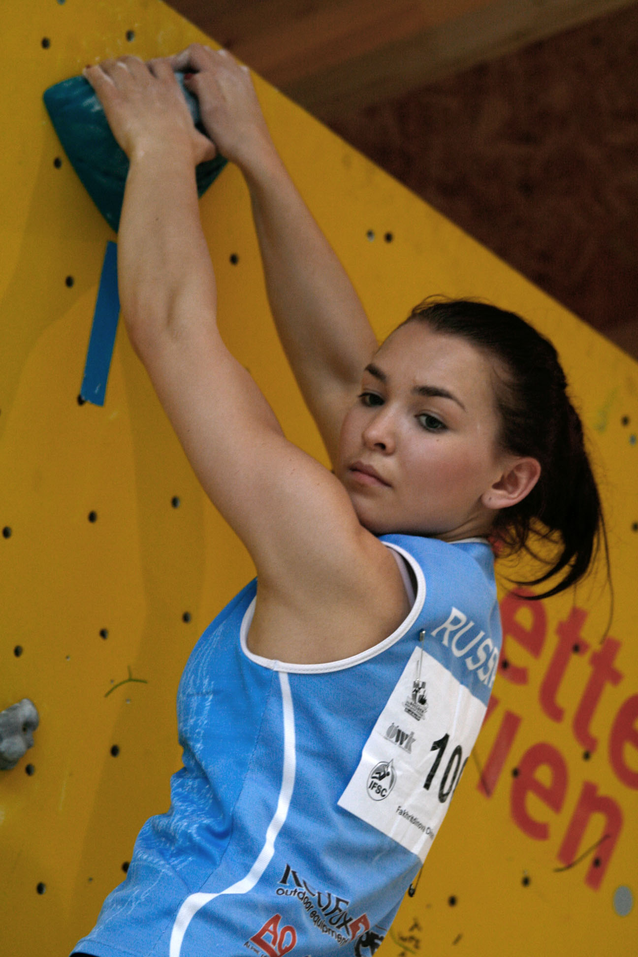 Dinara Fakhritdinova during qualifications at the IFSC Boulder Worldcup Vienna 2010.